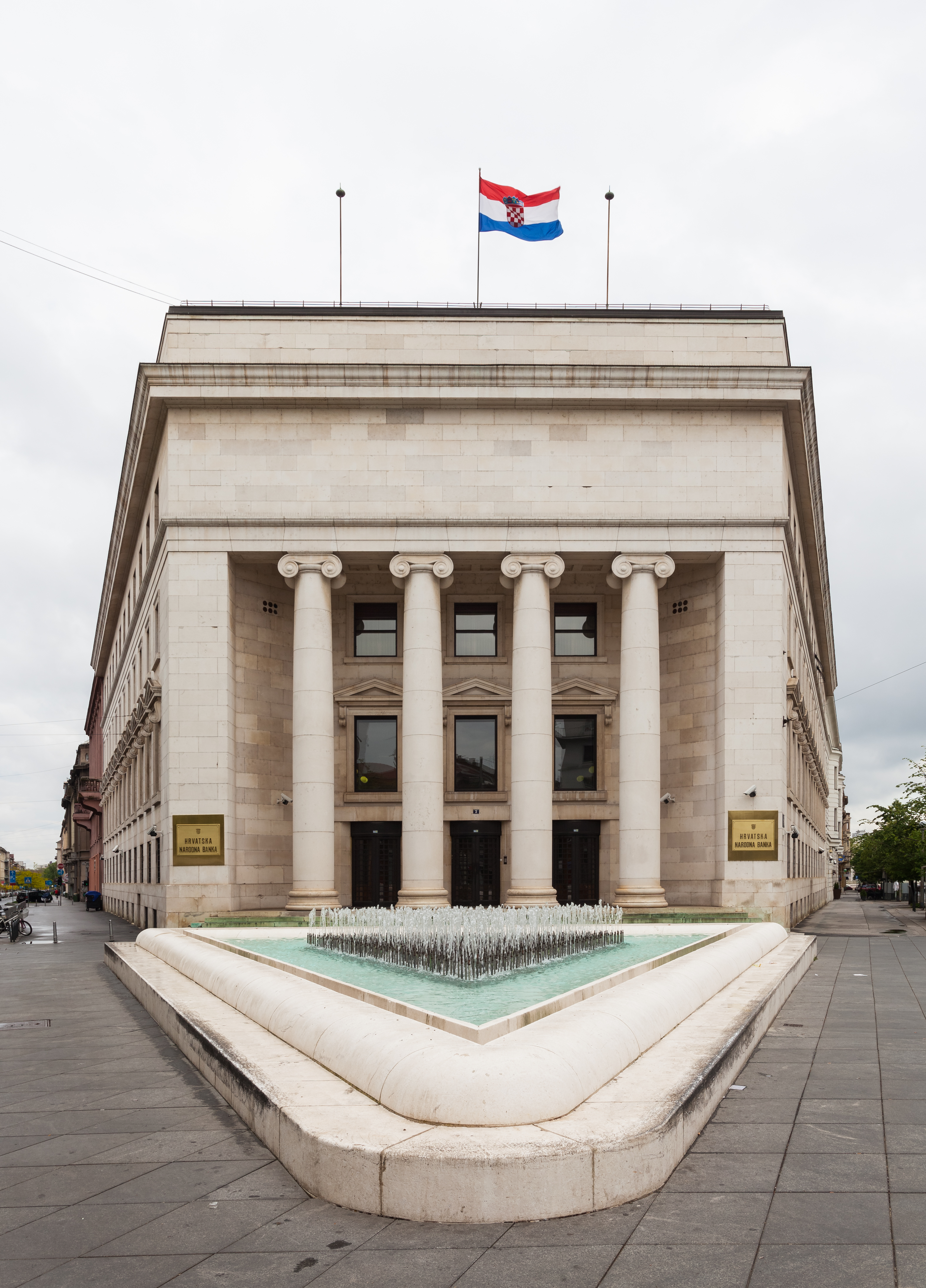 Main Railway Station, Zagreb, Croatia